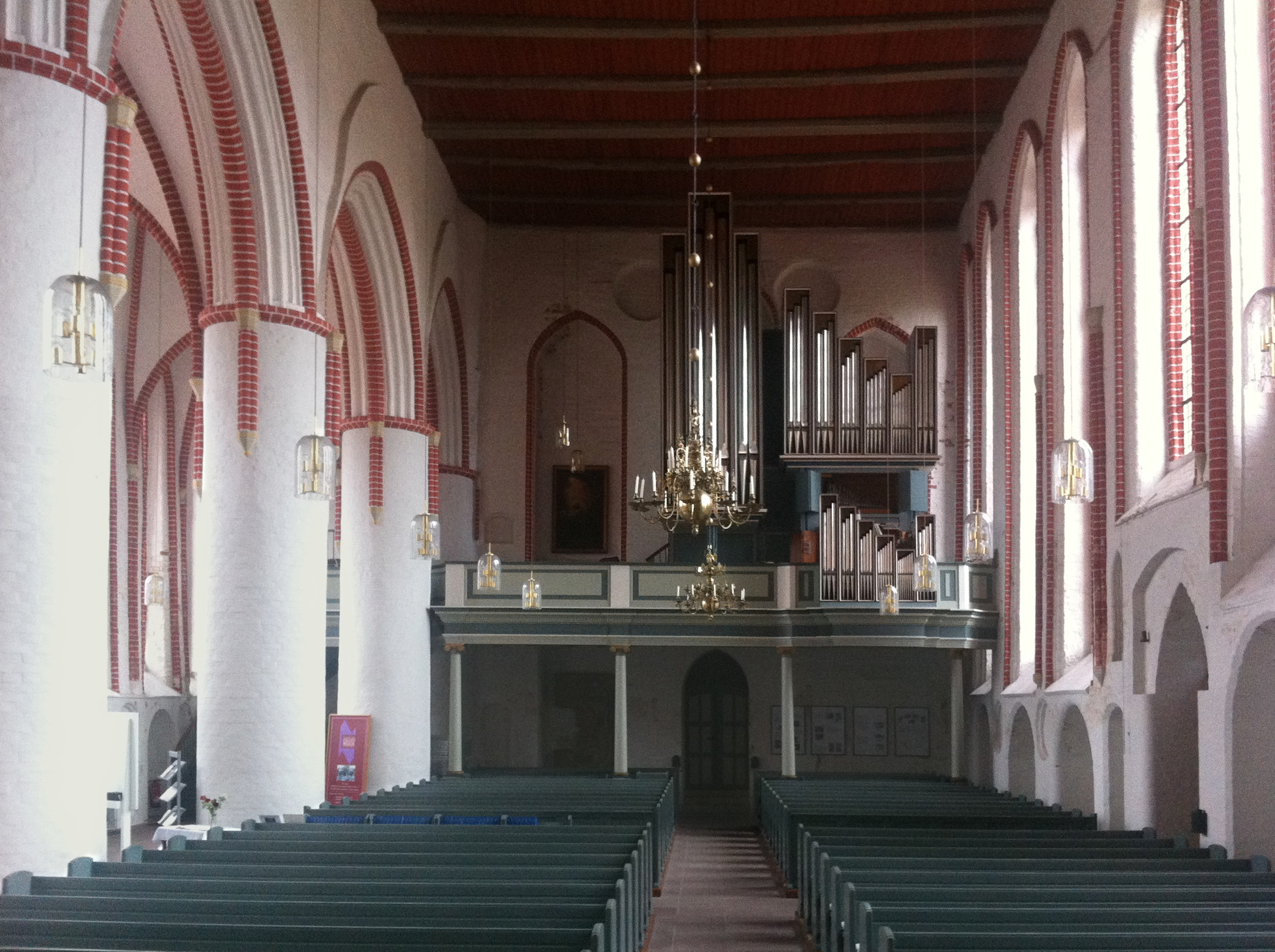 Interior view of the St. Marien church in Winsen (Luhe) with a view of the organ